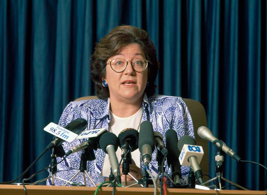 Premier of Western Australia Carmen Lawrence, at a press conference in 1990